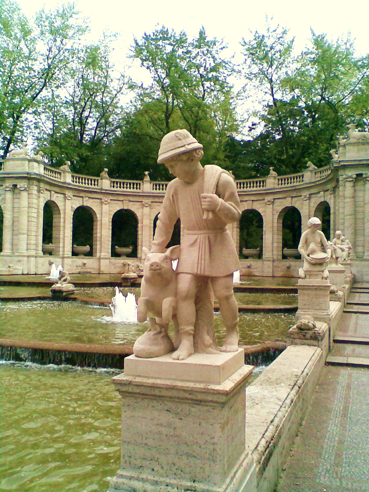 Friedrichshain locality of Berlin: Märchenbrunnen (fairy tale fountain) in the Volkspark Friedrichshain park, sculpture on the Brothers Grimm fairy tale «Hans in Luck» by Ignatius Taschner.